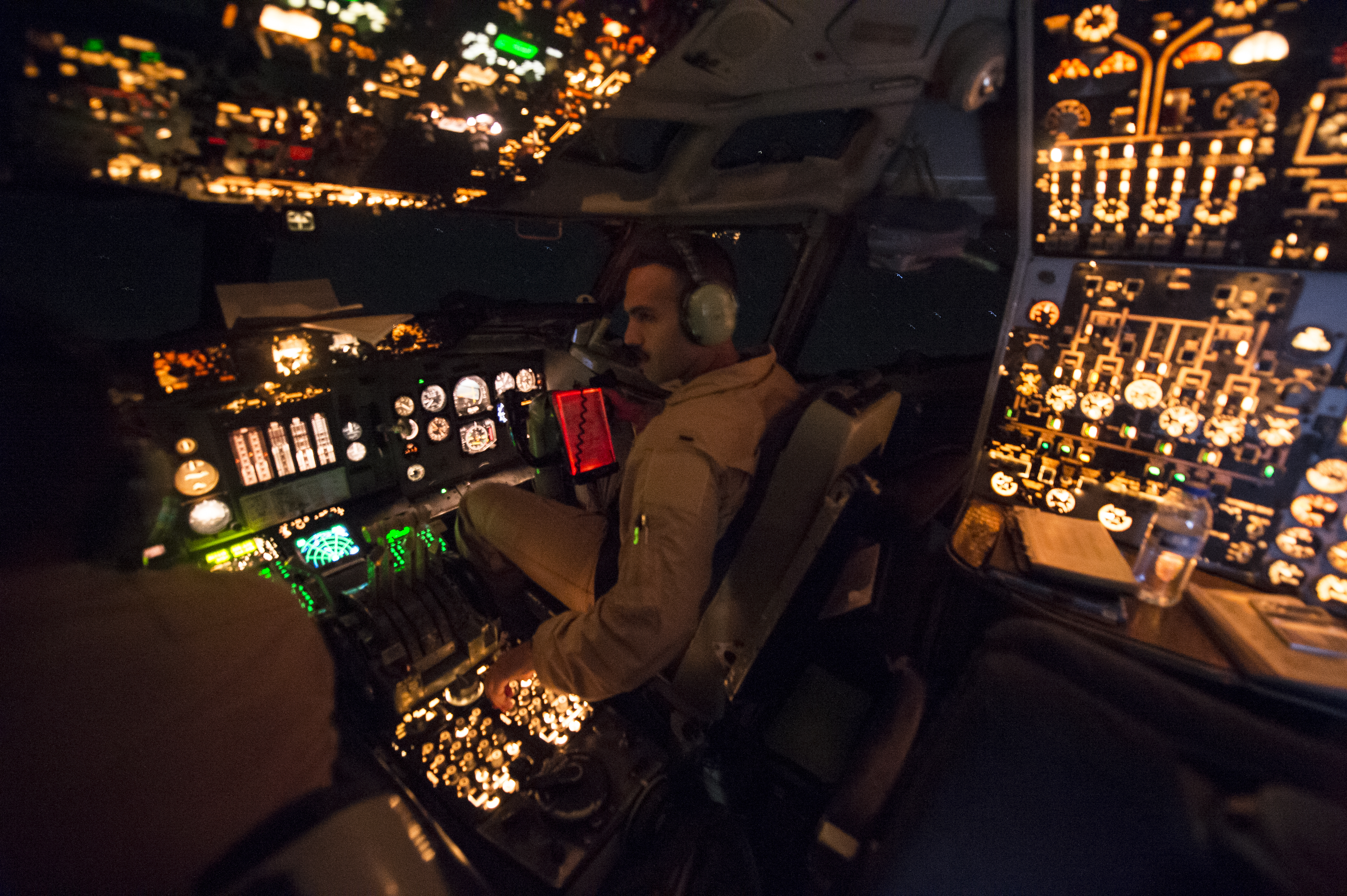 U.S. Air Force E-3B Sentry airborne warning and control system (AWACS) crew members conduct a mission in support of airstrikes against ISIL targets over northeastern Iraq, Oct. 2, 2014. The AWACS have been a part of the recent missions taking place in Iraq and Syria, controlling coalition aircraft to assist in eliminating ISIL targets. (U.S. Air Force's Central Photo)(Released)